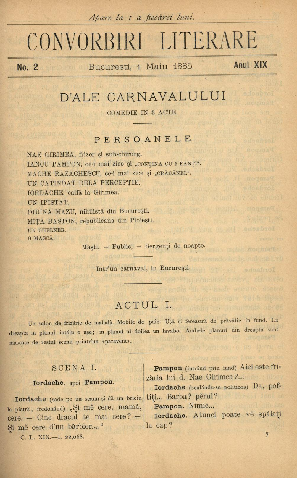 Cover of the Romanian magazine Convorbiri Literare, issue no. 2 dated 1 May 1885, featuring the first printed edition of Ion Luca Caragiale's D-ale carnavalului.